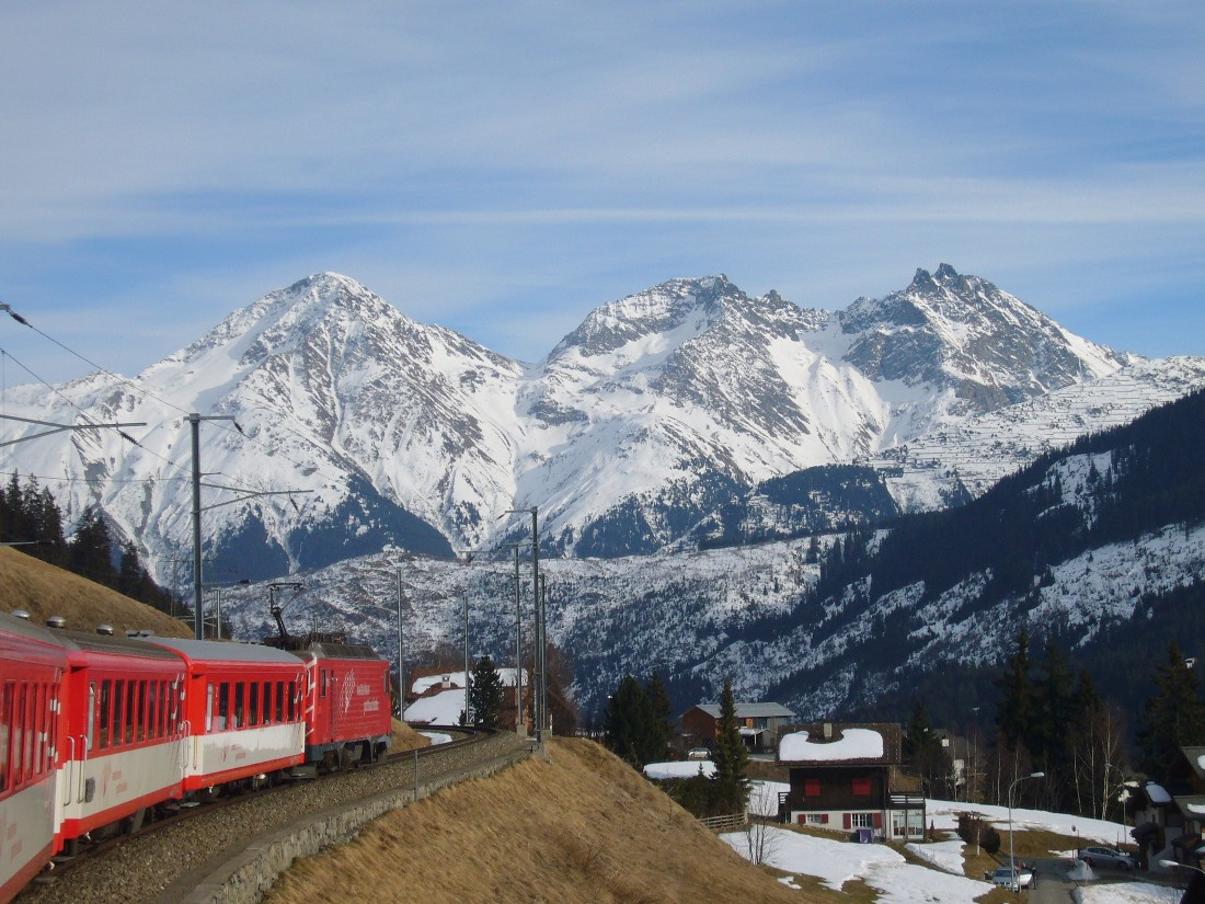 From the Glacier Express route in the Sedrun area you can see towards the east Piz Muraun, left, and the triple peak of Piz Cazirauns, Tuor Denter Corns ("tower between the horns") and Piz Caschleglia at 2936m